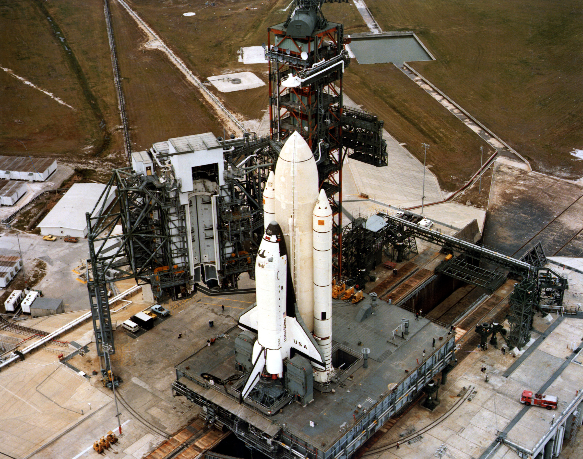 STS-1 Orbiter Columbia - arrival at Complex 39A.